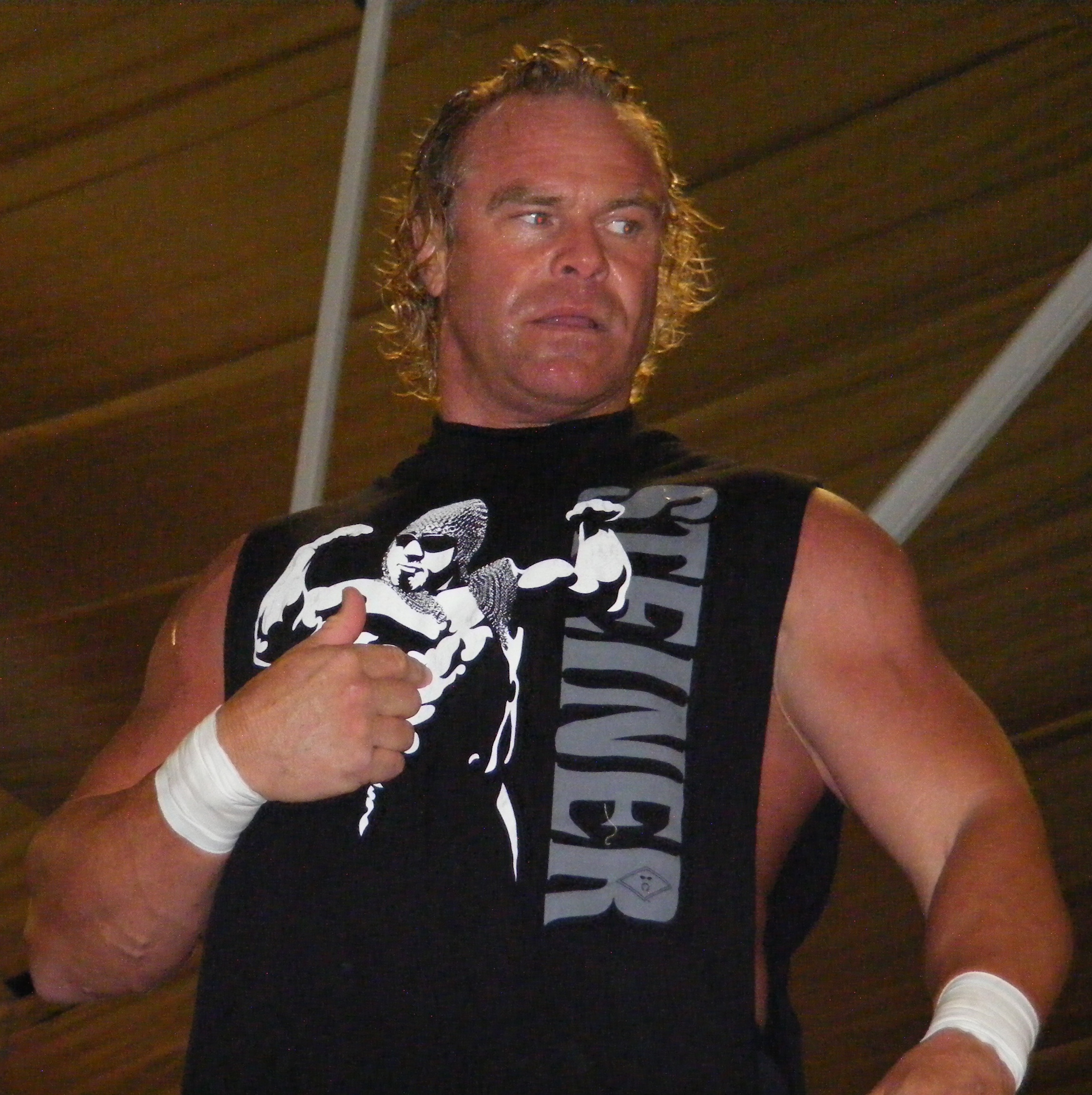 An image of professional wrestler Monty Sopp. Other information N/A